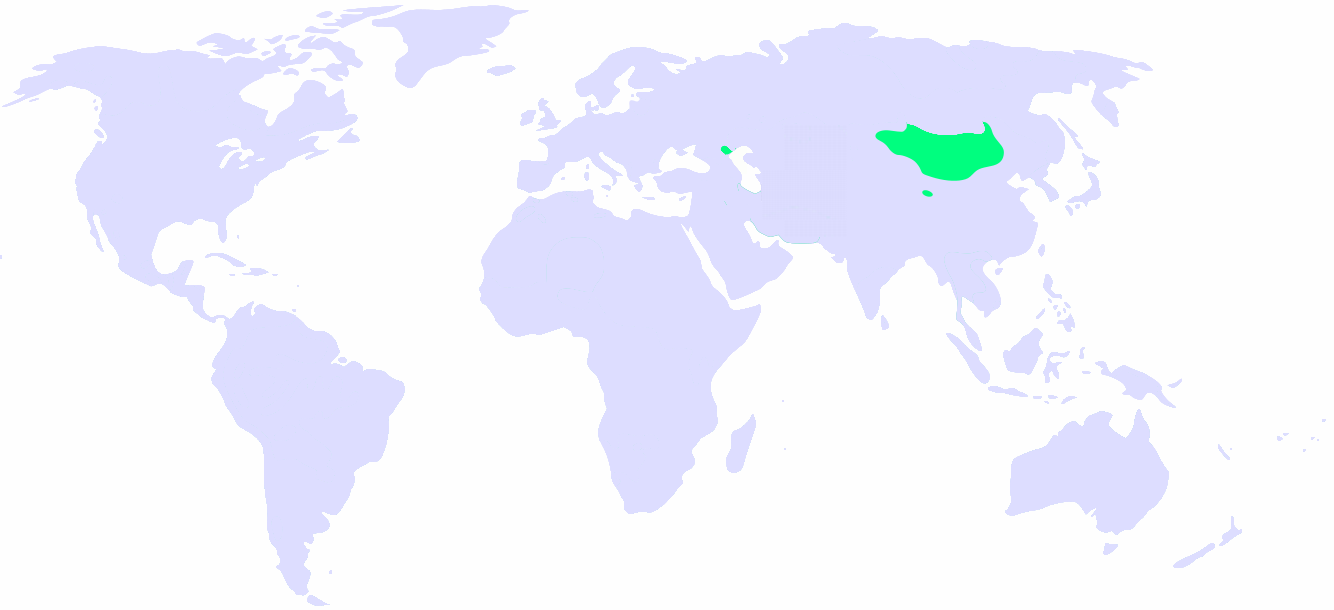 Geographic distribution of Mongolic languages